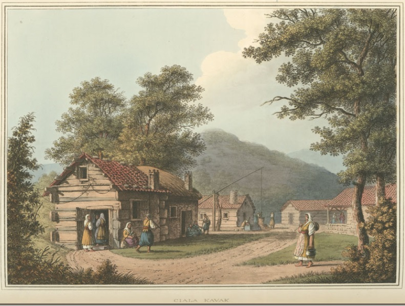 Village of Ciali Kavak, nowadays village of Rish, Bulgaria